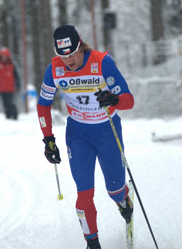 Milan Šperl at the Tour de Ski 2010 in Oberhof